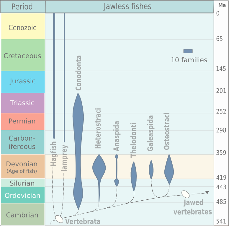 Evolution of jawless fishes from the Cambrium to the present as a spindle diagram. The width of the spindles are proportional to the number of families as a rough estimate of diversity. The diagram is based on Benton, M. J. (2005) Vertebrate Palaeontology, Blackwell, 3rd edition, Fig 3.25 on page 73.